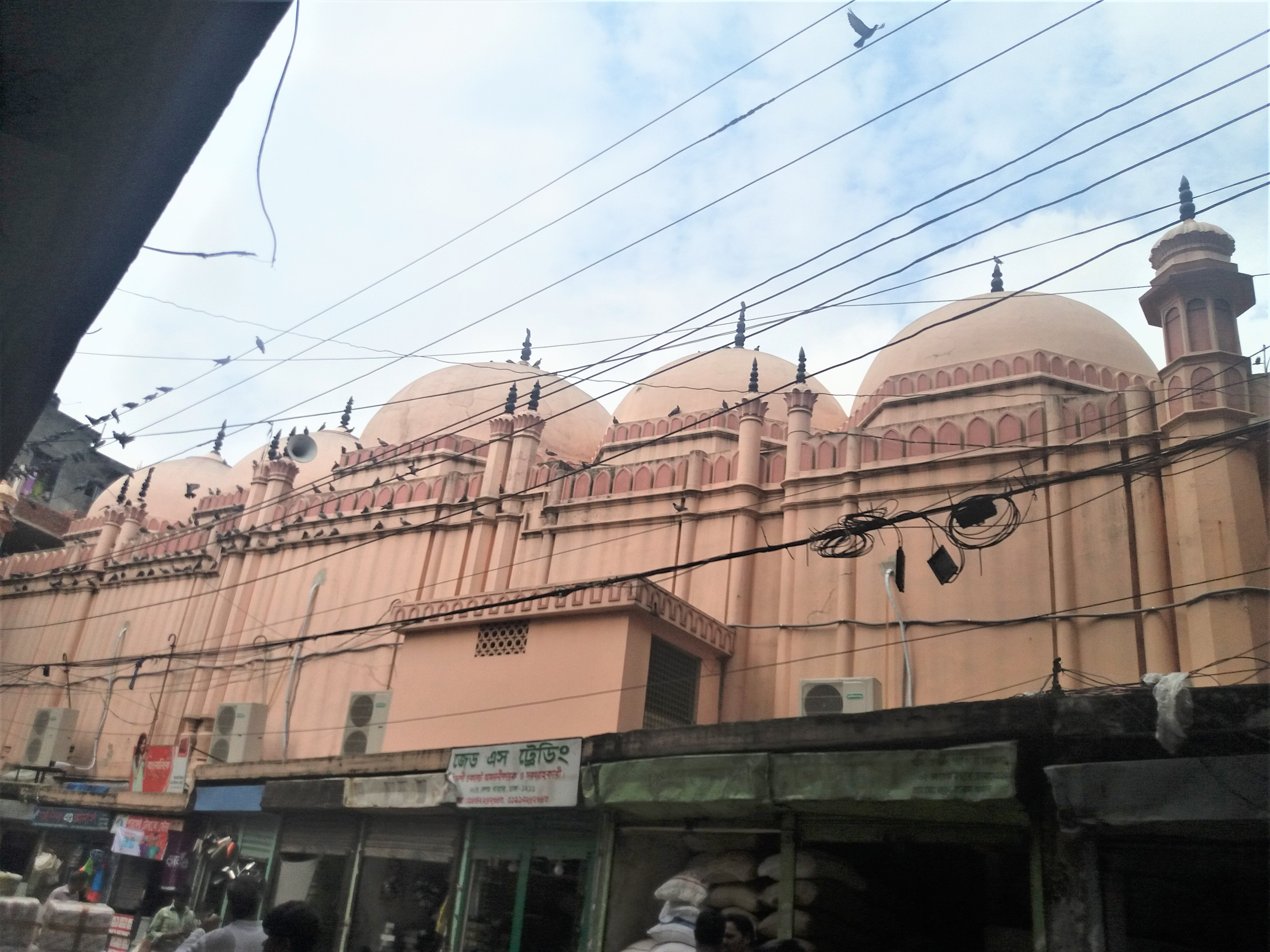 Kartalab Khan Mosque, also known as Begum Bazar Shahi Mosque